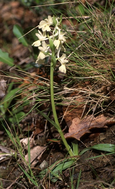 Dactylorhiza romana, Toscana, Italy